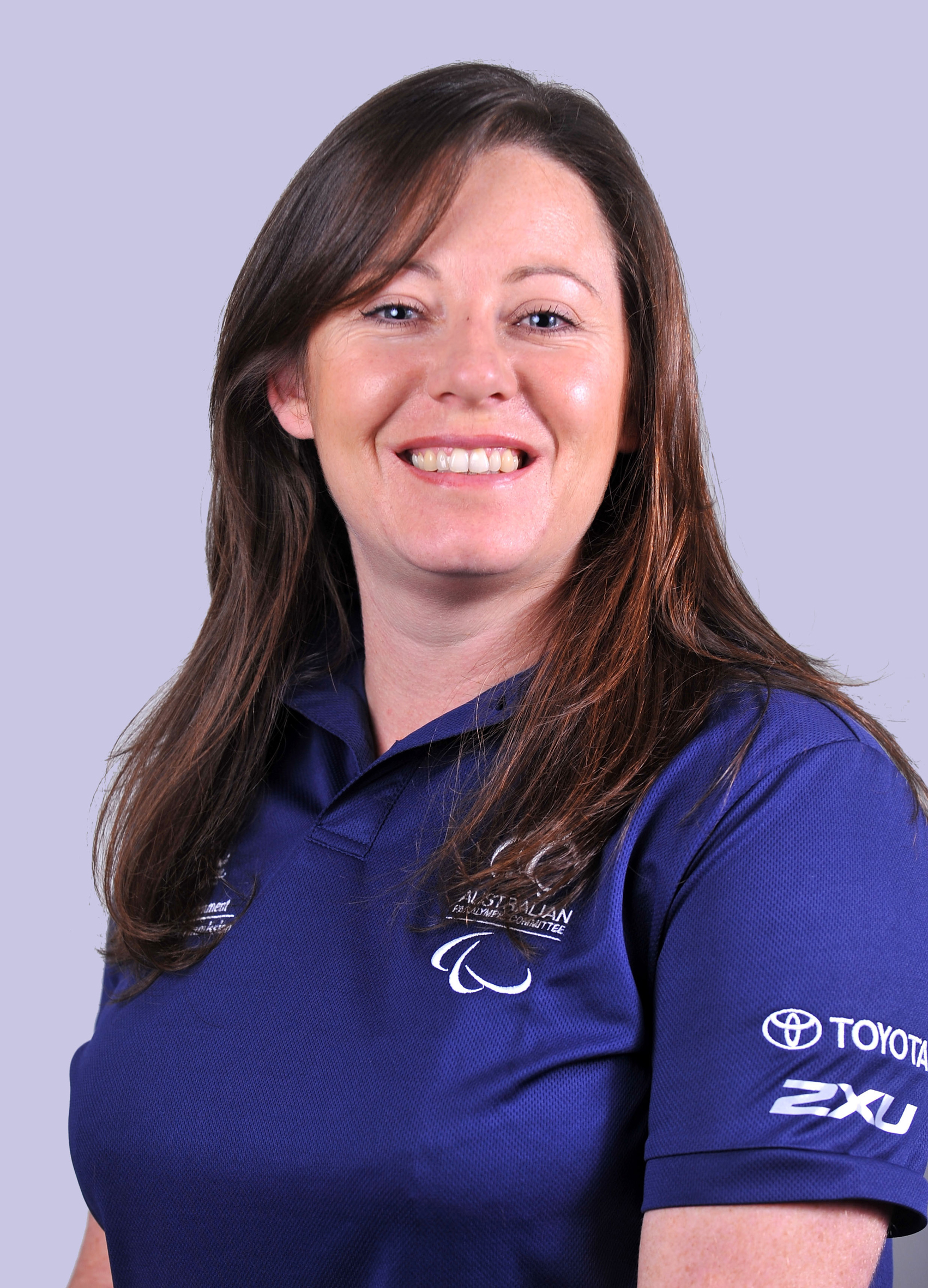 Portrait of Australian wheelchair basketballer Tina McKenzie, 2012 Australian Paralympic (shadow) Team athlete